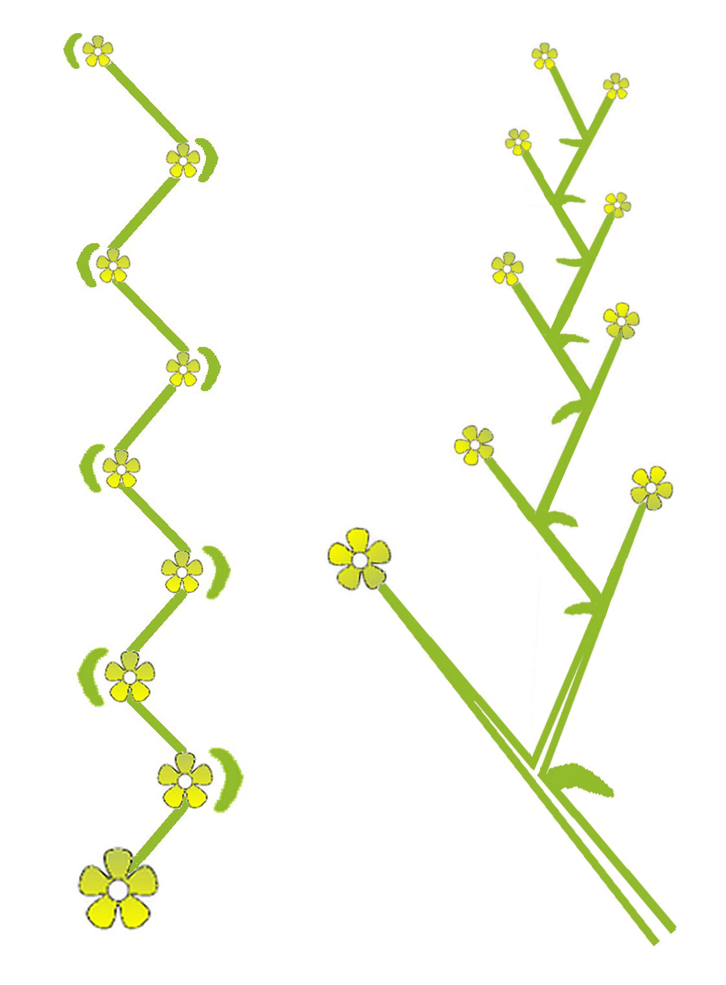 cincinnus